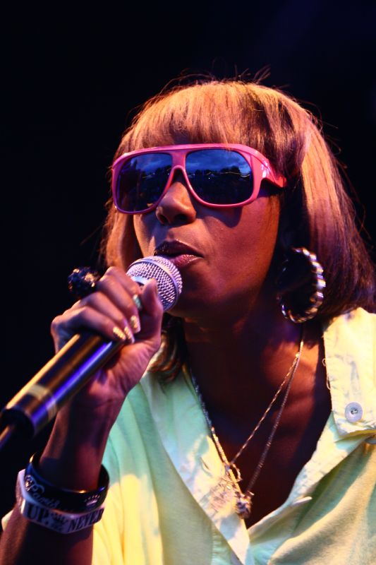 Santogold at Eurockéennes de Belfort 2008